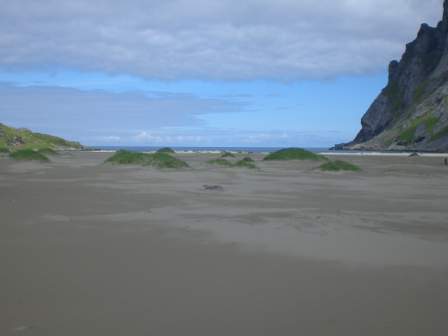 Bunesstranda, Lofoten, Norway